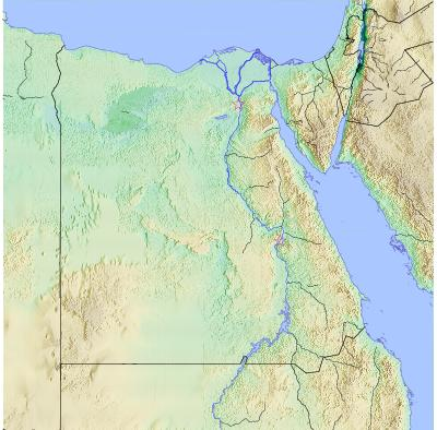 Terrain map of Egypt, with star-markers locating Cairo and Karnak. Notes: File is in JPEG format, which loads 9x times faster than PNG-format file. The image file is intended for use in frequently-read articles, where faster display time will reduce overhead for many users.